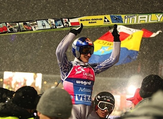 Adam Małysz during Adam's Bull's Eye on 26 March 2011 in Zakopane.